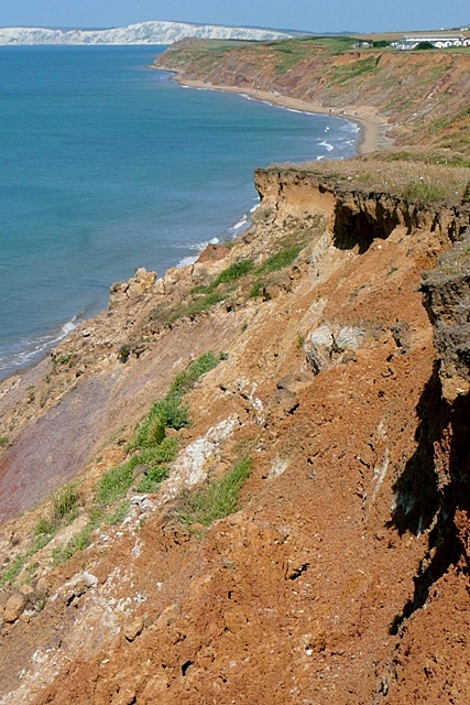 Towards Grange Chine The erosion of the Wealden Beds along this section of the coast can be seen clearly. In the distance is the chalk of Tennyson Down.